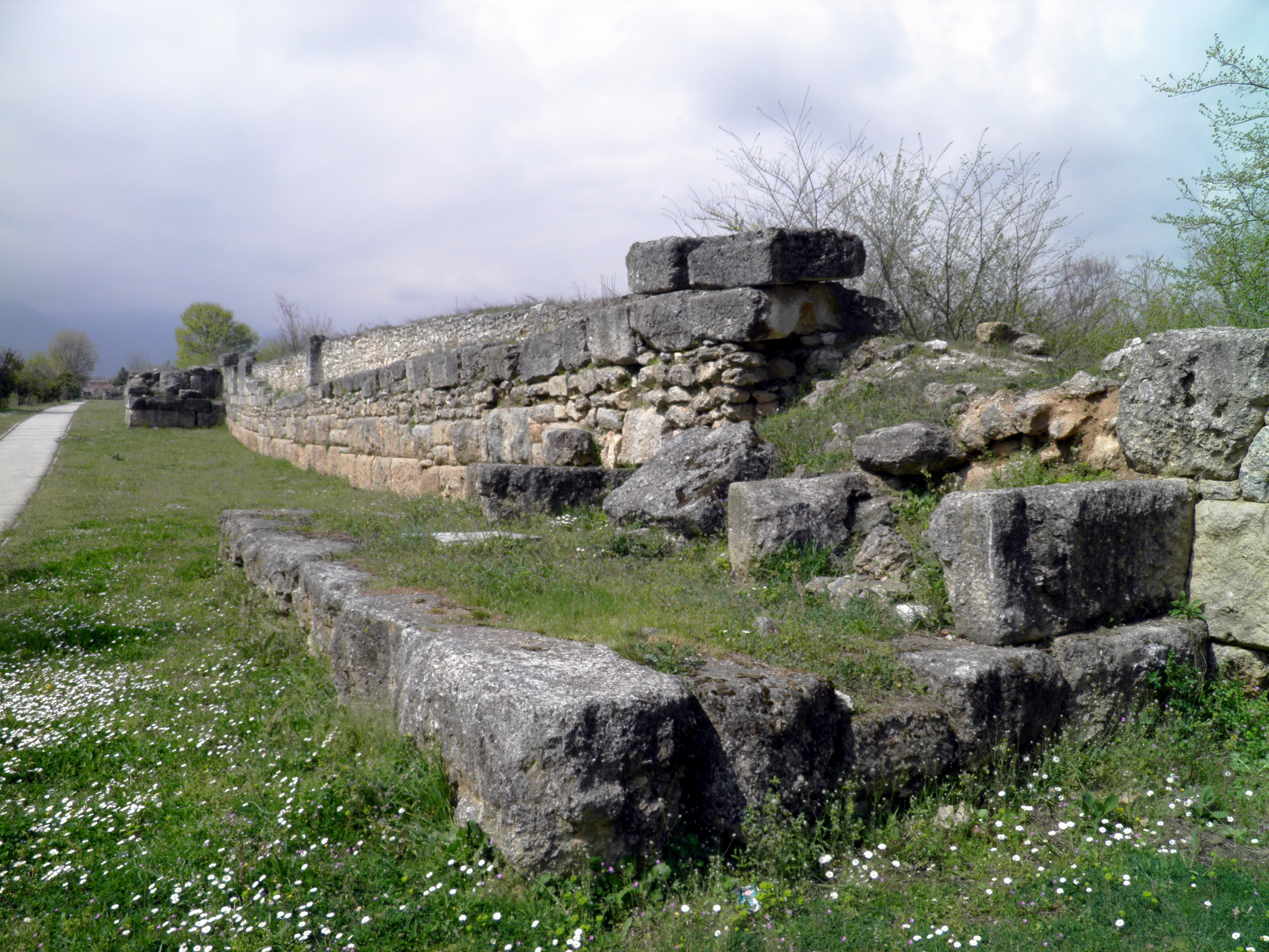 The earliest phase of the defensive wall is dated to the reign of the Macedonian King Kassander. The fortified enceinte wsa of rectangular, almos square plan and the area into muros was approximately 43 hectares. The foundation of the wall followed the configuration of the ground, which sloped appreciably from west to east. Two or three coures of conglomerte stones from Olympus were laid upon the euthynteria. At 33-metre intervals stood a square tower (7x7m), incorporated in the wall. Additional defensive work, such as the moat, reinforced the protection of the city. On the east of the wall, where the Vaphyras flowed, there were very possibly riverine harbour installations. The early Hellenistic fortification of Dion was destroyed during the Aetolian invasion in 219 BC, but was reconstructed immediately after by Philipp V. In Roman times the greater part of the brick-built upper structure of the wall collapsed. Indeed, part of the south side was demolished, in order to built the great baths there. The wall was repaired once more in th mid-3rd century AD, to protect the city from the incursions of barbarian tribes. In this phase the east side was shifted westwards, because of the displacements of the bed of River Vaphyras. The late Roman enceinte was 2,800 meters in perimeter and enclosed an area of 37 hectares. Earlier architectura members (spolia), funerary altars and fragment of sculptures of various periods were used as building material. The walls of Dion were repaired for the last time between AD 365 and 380. A cross wall was built on the north and the east side which limited the area of the city to 16 hectares and the circuit of the wall to 1,595m. The final walls of Dion were destroyed in the mid-5th century AD, probably by earthquake.